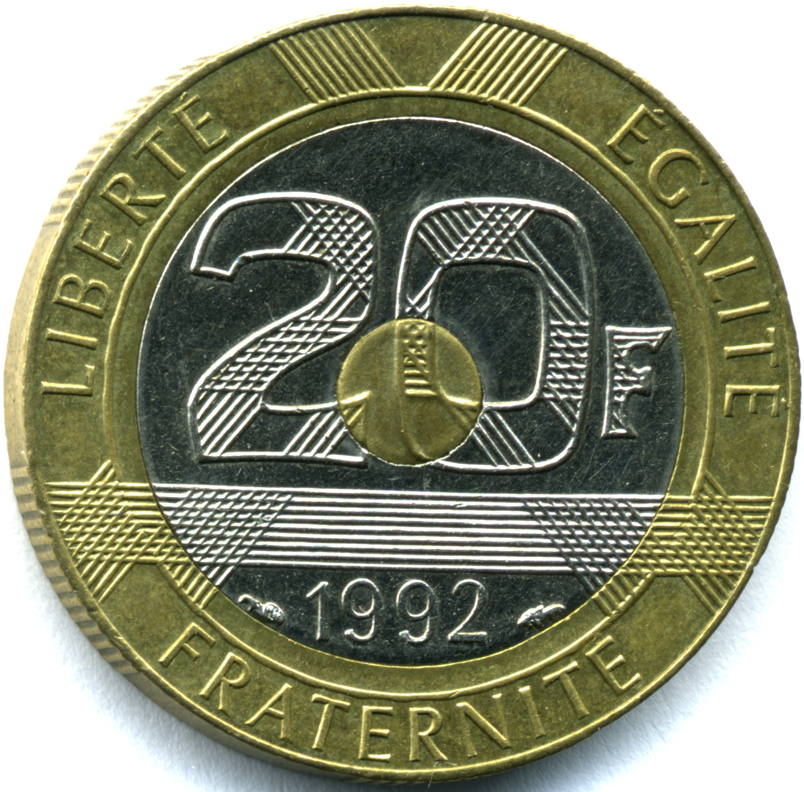 French 20 Franc trimetal coin reverse.